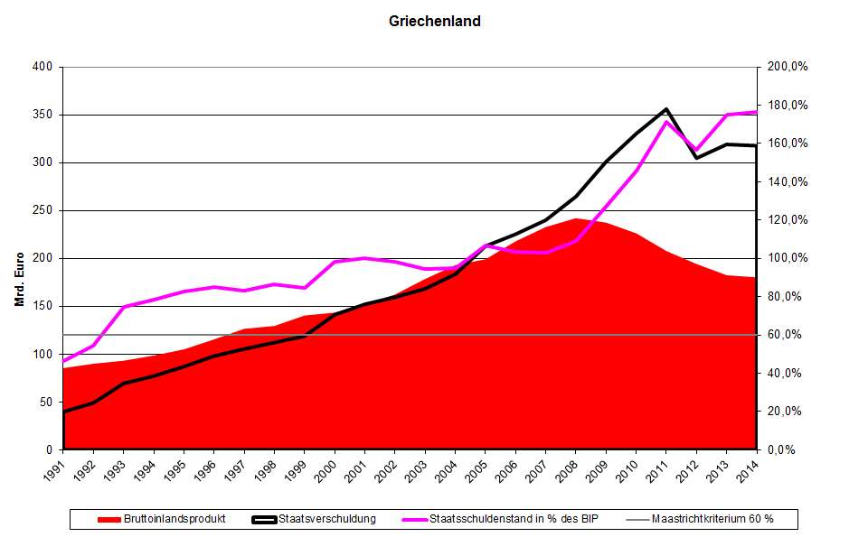 Greece: GDP, gross public debt in bill. Euro and in relation to GDP in %